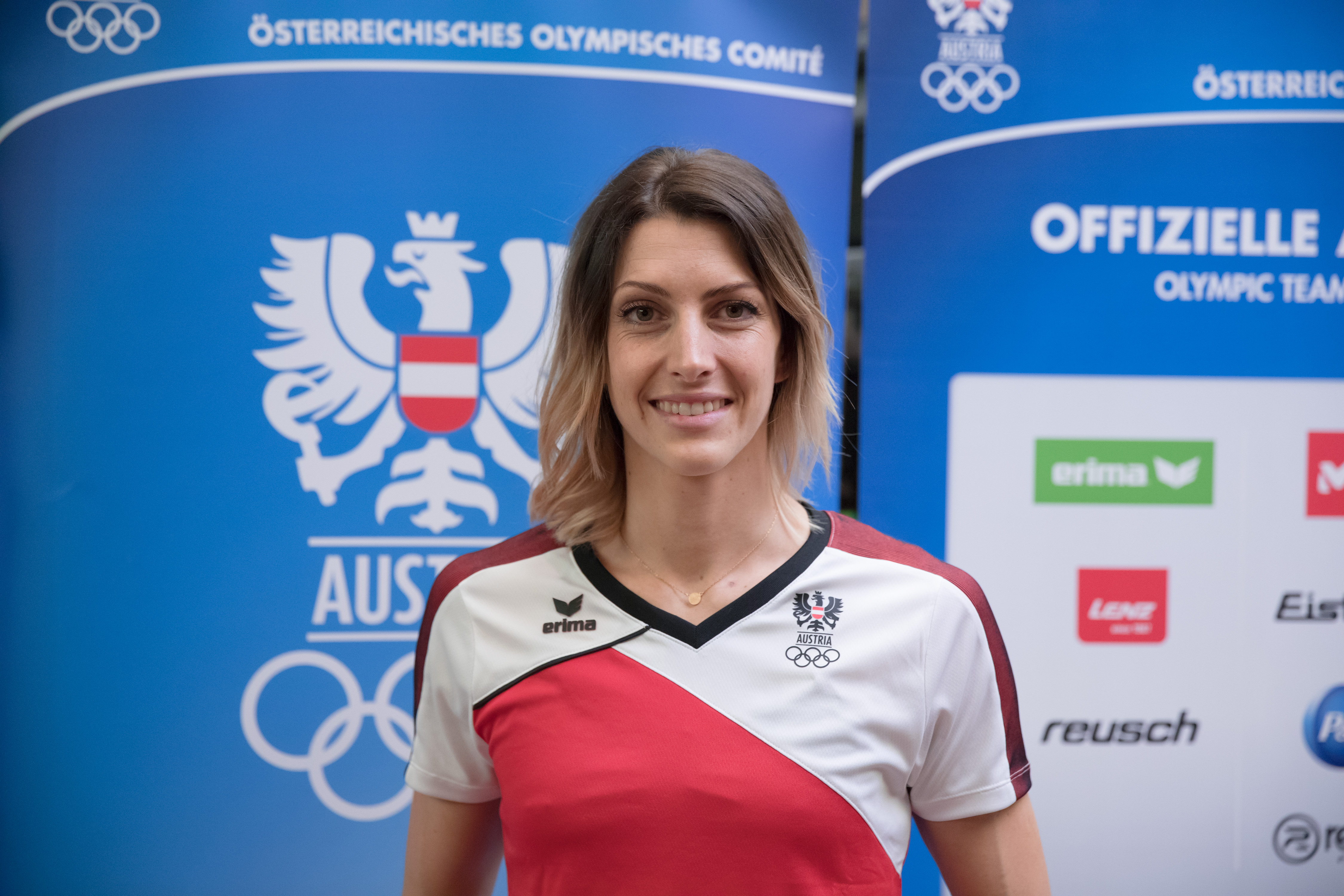 Janine Flock at the outfitting of the Austrian team for the 2018 Winter Olympics (Hotel Marriott in Vienna, Austria.